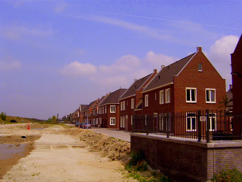 Floriande, a quarter in Hoofddorp, the Netherlands. Houses are build in 1930's style